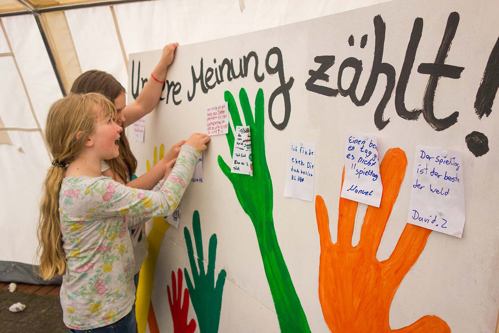 Children participate